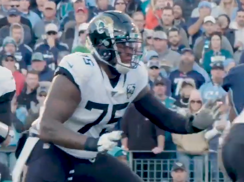 Jawaan Taylor 2019. Image from video Harold Landry Takes Down Nick Foles | Slow-Mo Monday, ~ 00:01